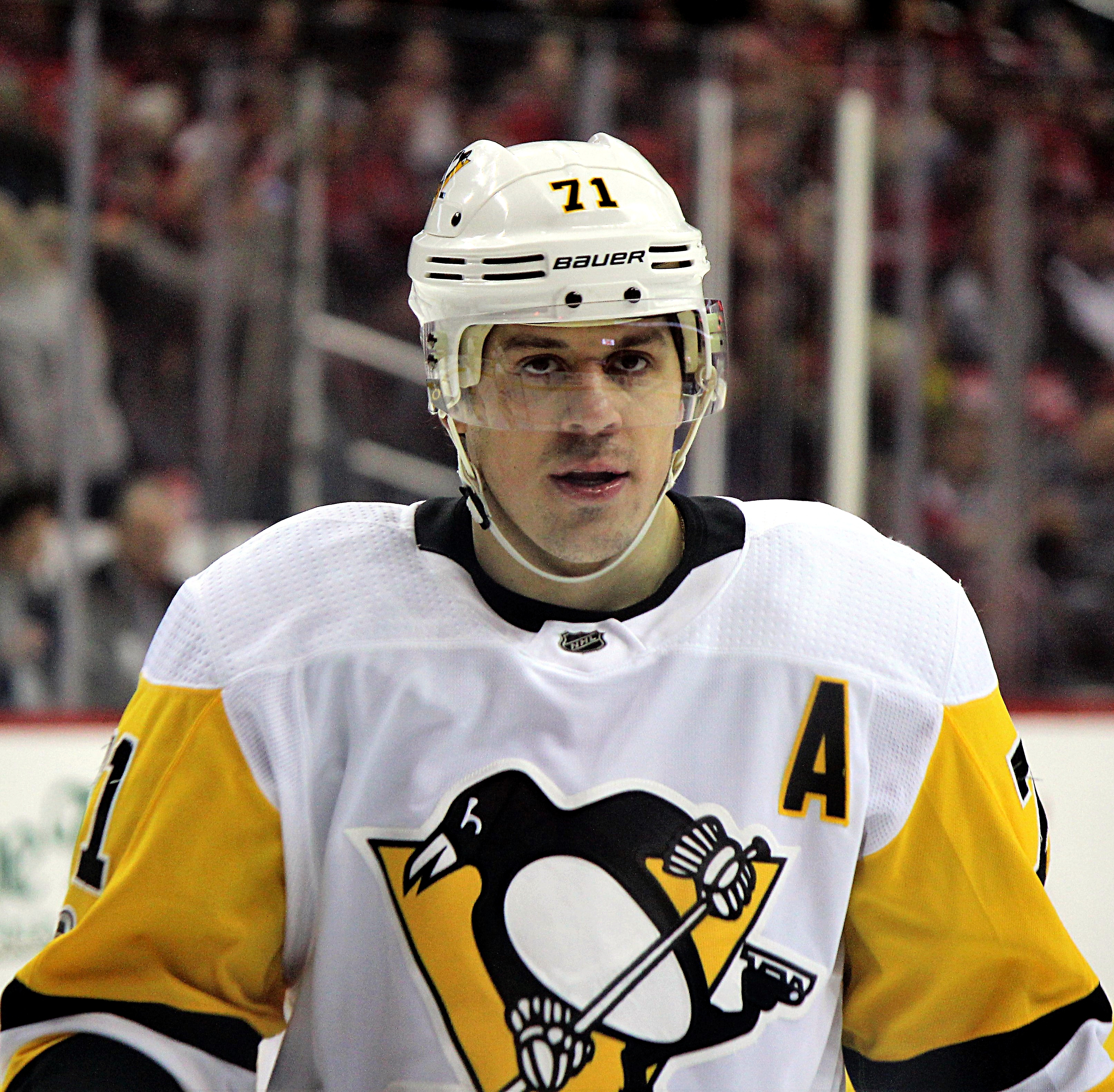 Pittsburgh Penguins forward Evgeni Malkin during a game against the Washington Capitals, November 10, 2017, at Capital One Arena in Washington, D.C.